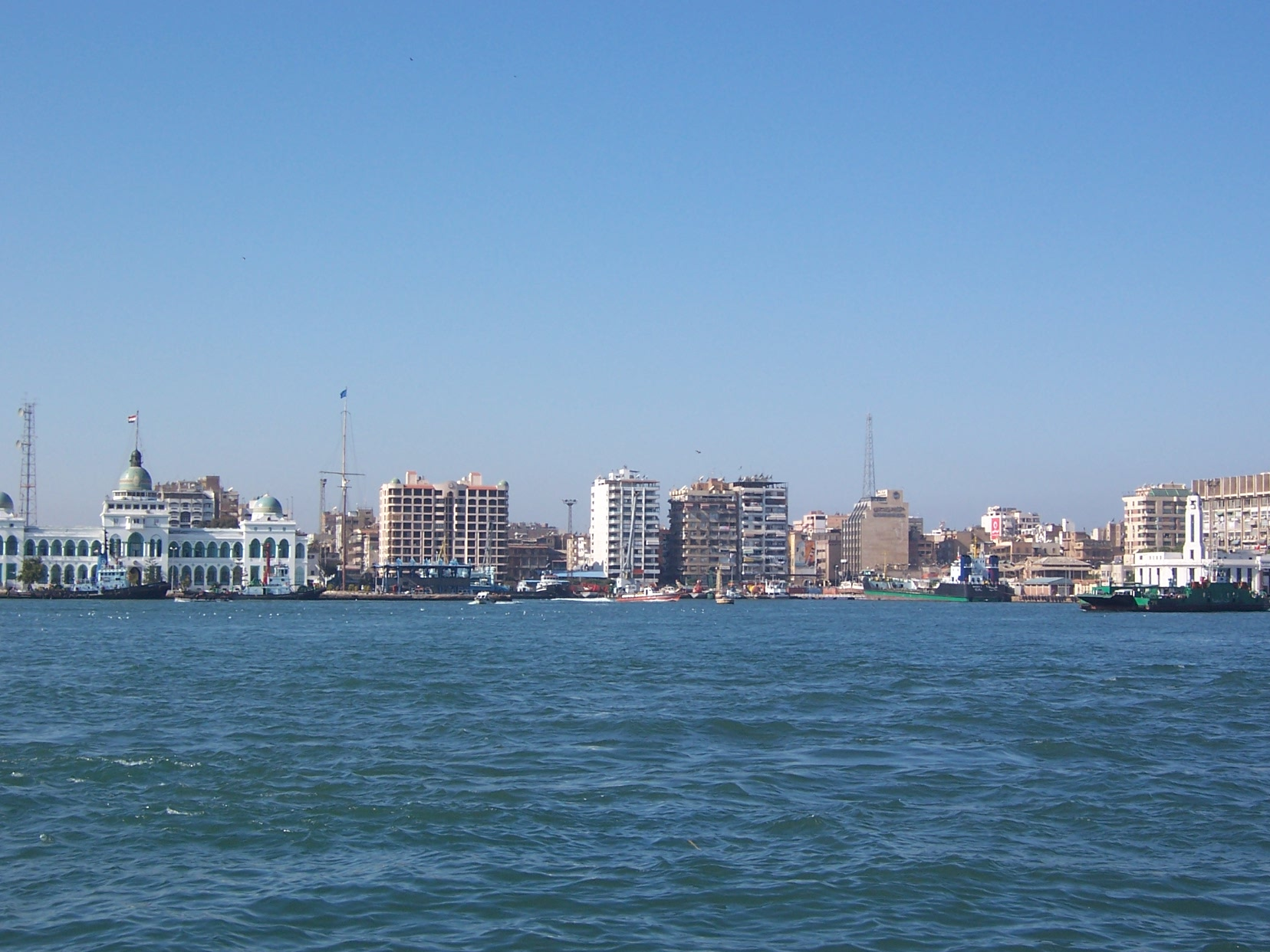 Photos from winter Egypt trip 2007 Jan-Feb